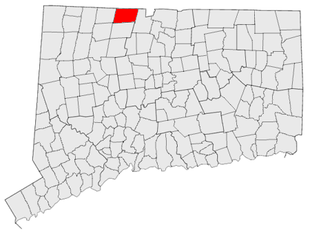 Location of Hartland, Connecticut.